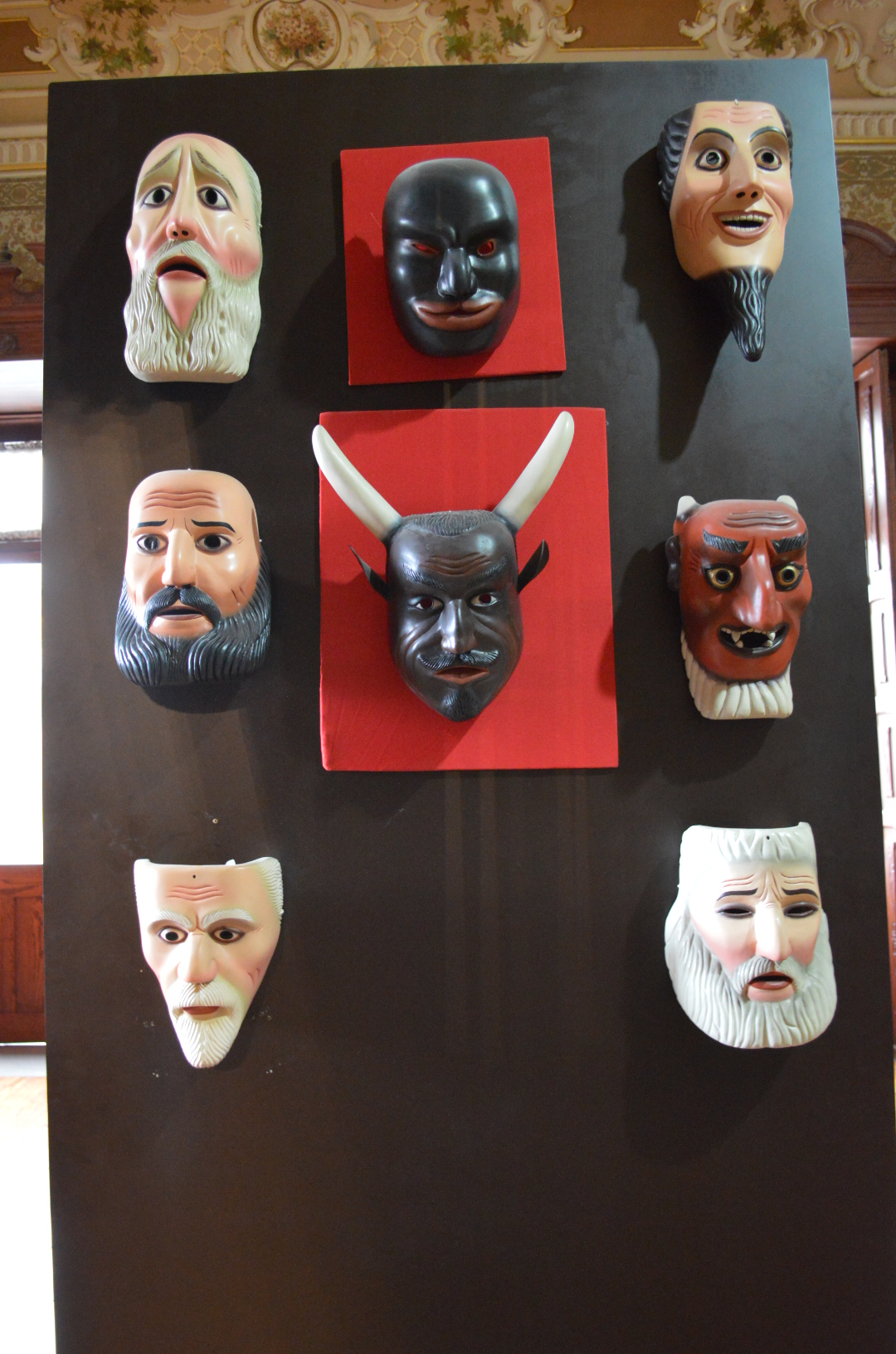 Various masks from Guanajuato at the Museo Nacional de la Máscara, San Luis Potosí